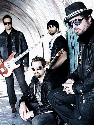 Puerto Rican Rock band, La Secta Allstar.